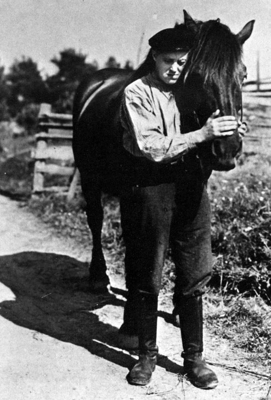 Fridolf Rhudin in the film Simon i Backabo